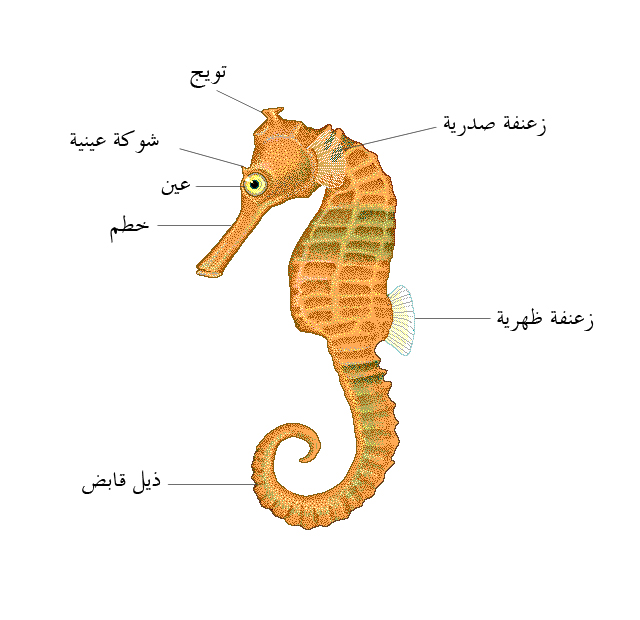 The anatomy of a seahorse